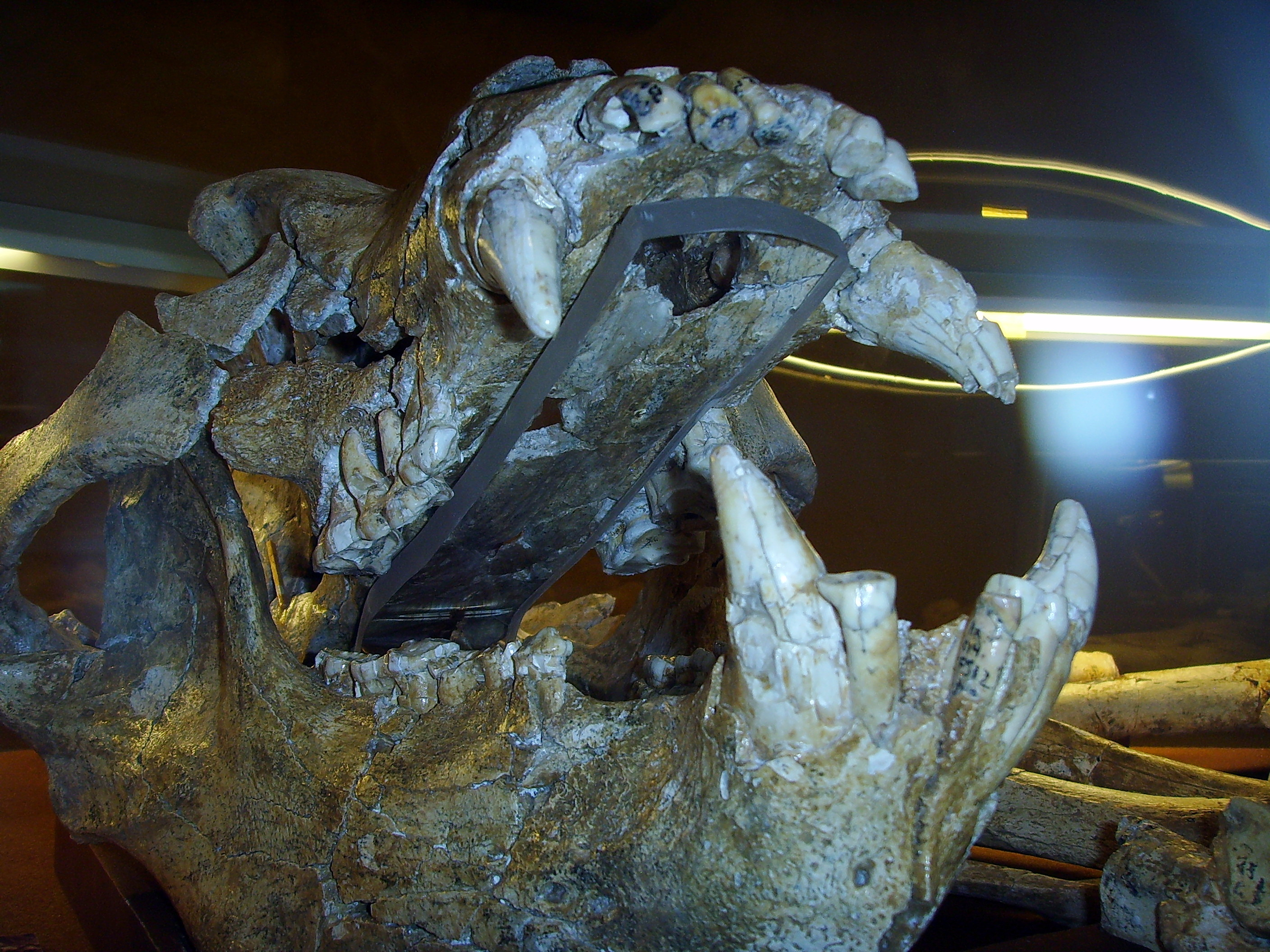 Musée de Préhistoire, Tautavel (Perpignan-region, France): Cave bear (Ursus deningeri) from Arago cave